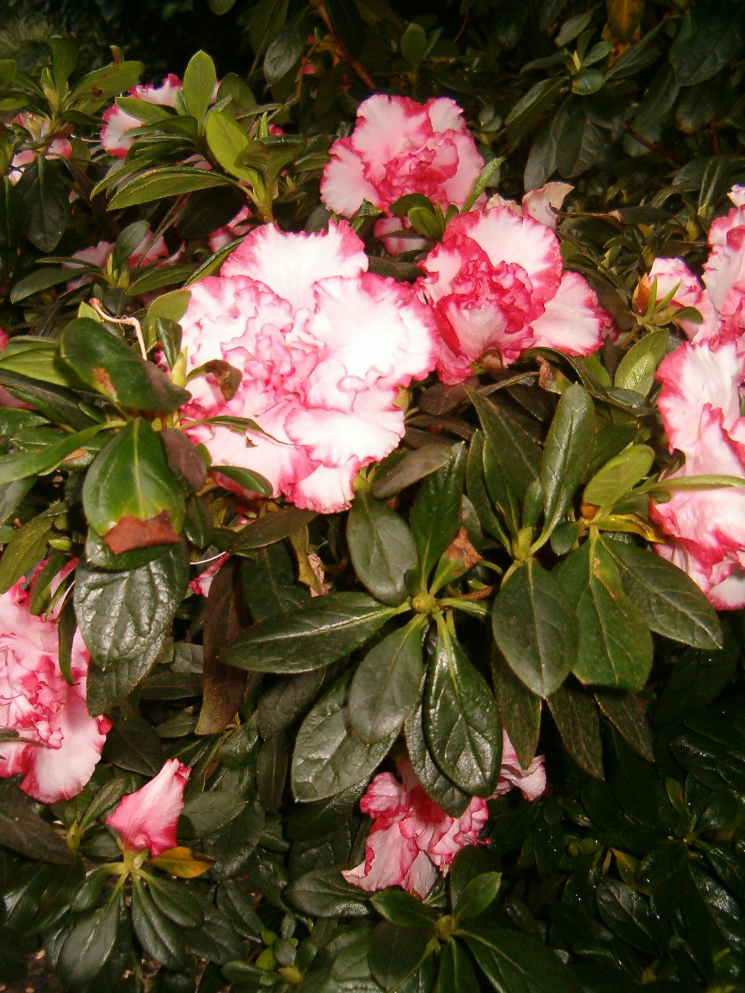 Location: Botanical Gardens Berlin Dahlem